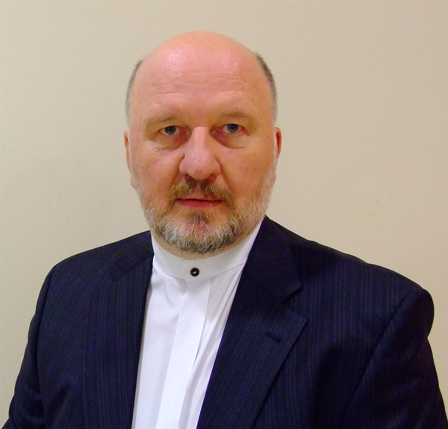 Laimis VIlkoncius